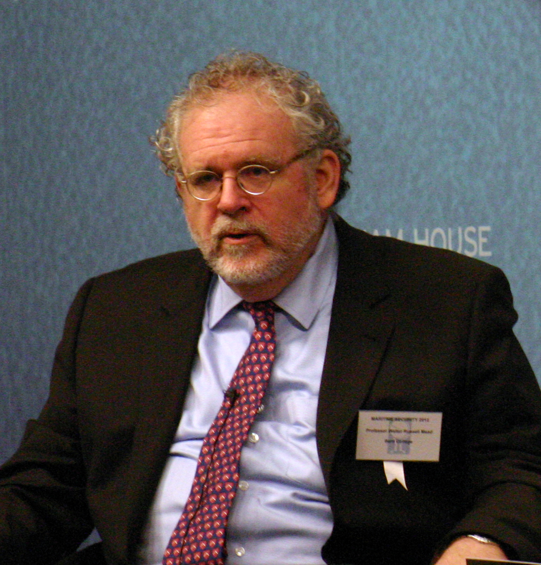 Walter Russell Mead at the Chatham House event A New Era in Maritime Security?: Risks, rules and responsibilities, 23 October 2012